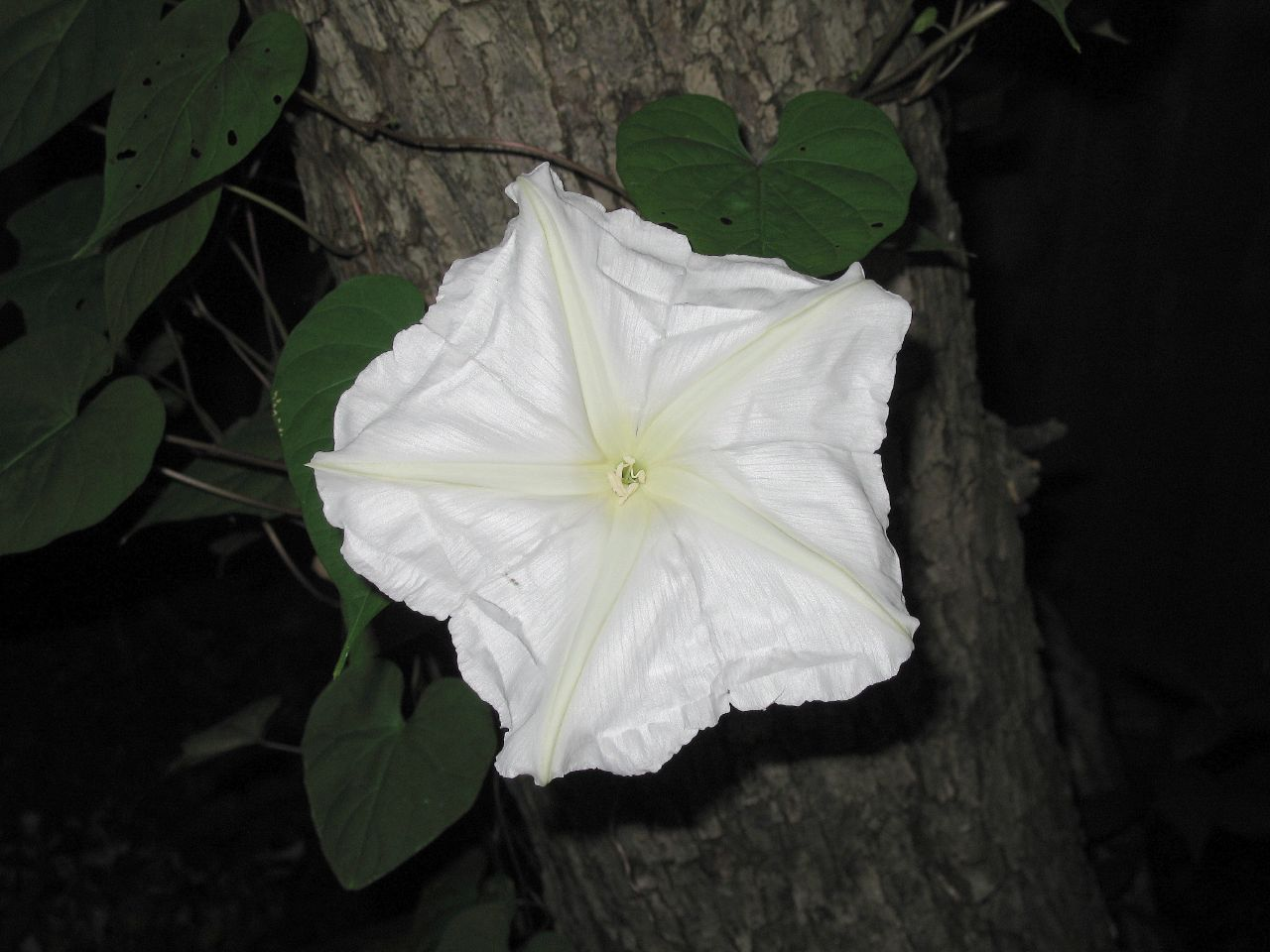 This Ipomoea alba was growing at my friend Zeb's house. He called it a moon flower, and said that it just bloomed as we arrived and would probably die before the next morning. I took a shot of it because it was very neat! The next morning however, there was another moon flower that bloomed on the other side of the same tree, which was very very cool!